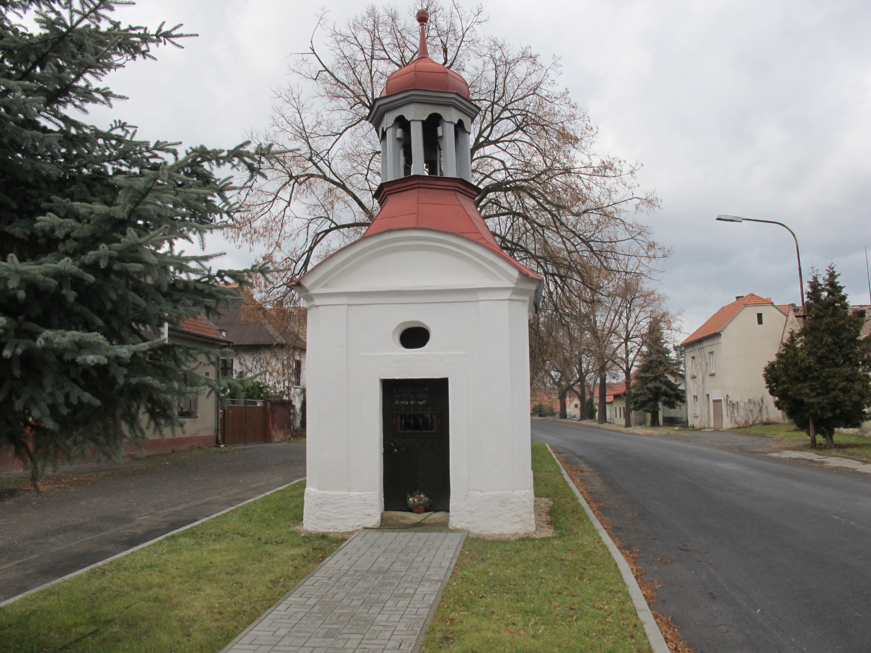 Chapel in Touchovice